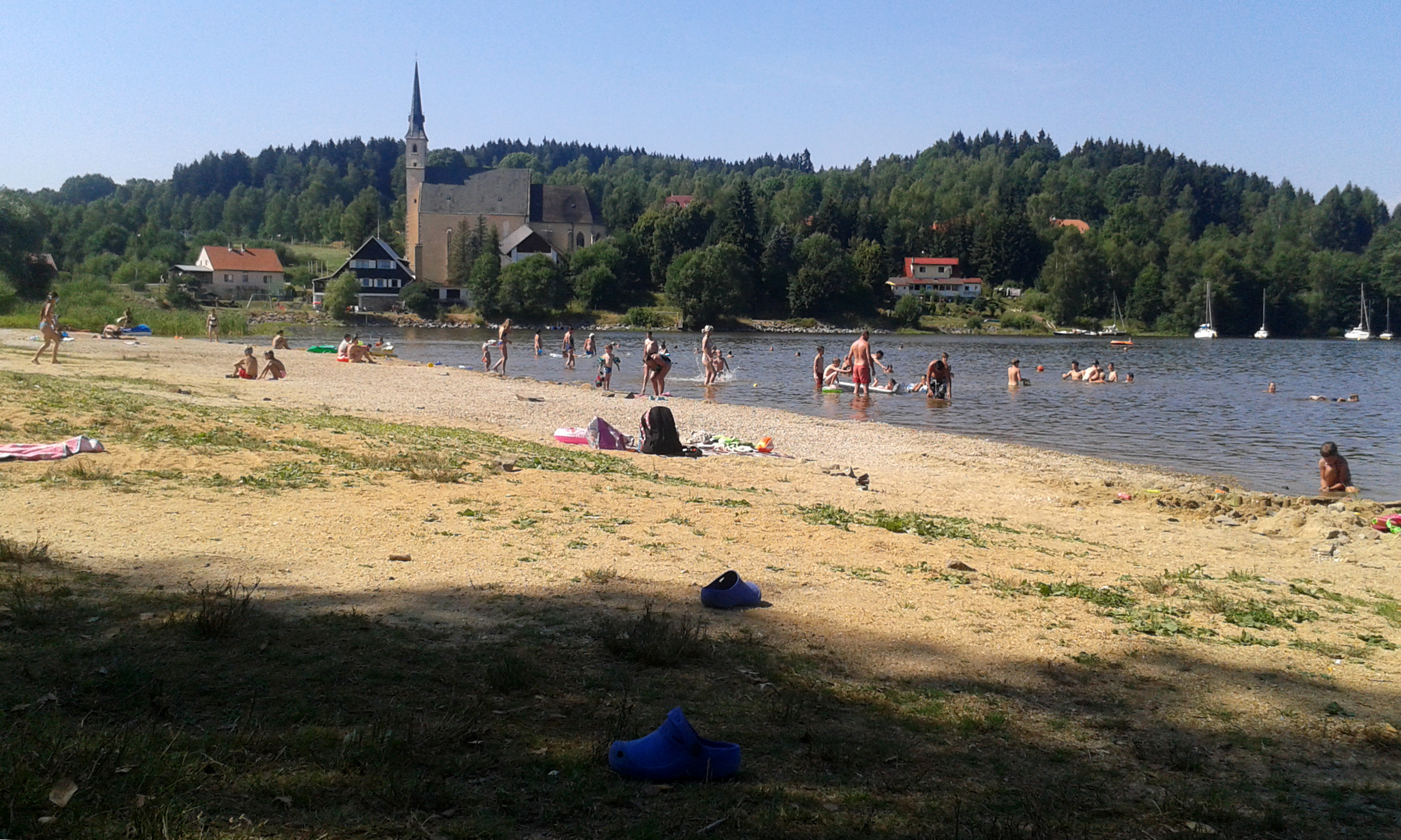 Lipno Reservoir and the Church of Saints James and Philip as seen from the beach in Přední Výtoň, Český Krumlov District, Czech Republic.